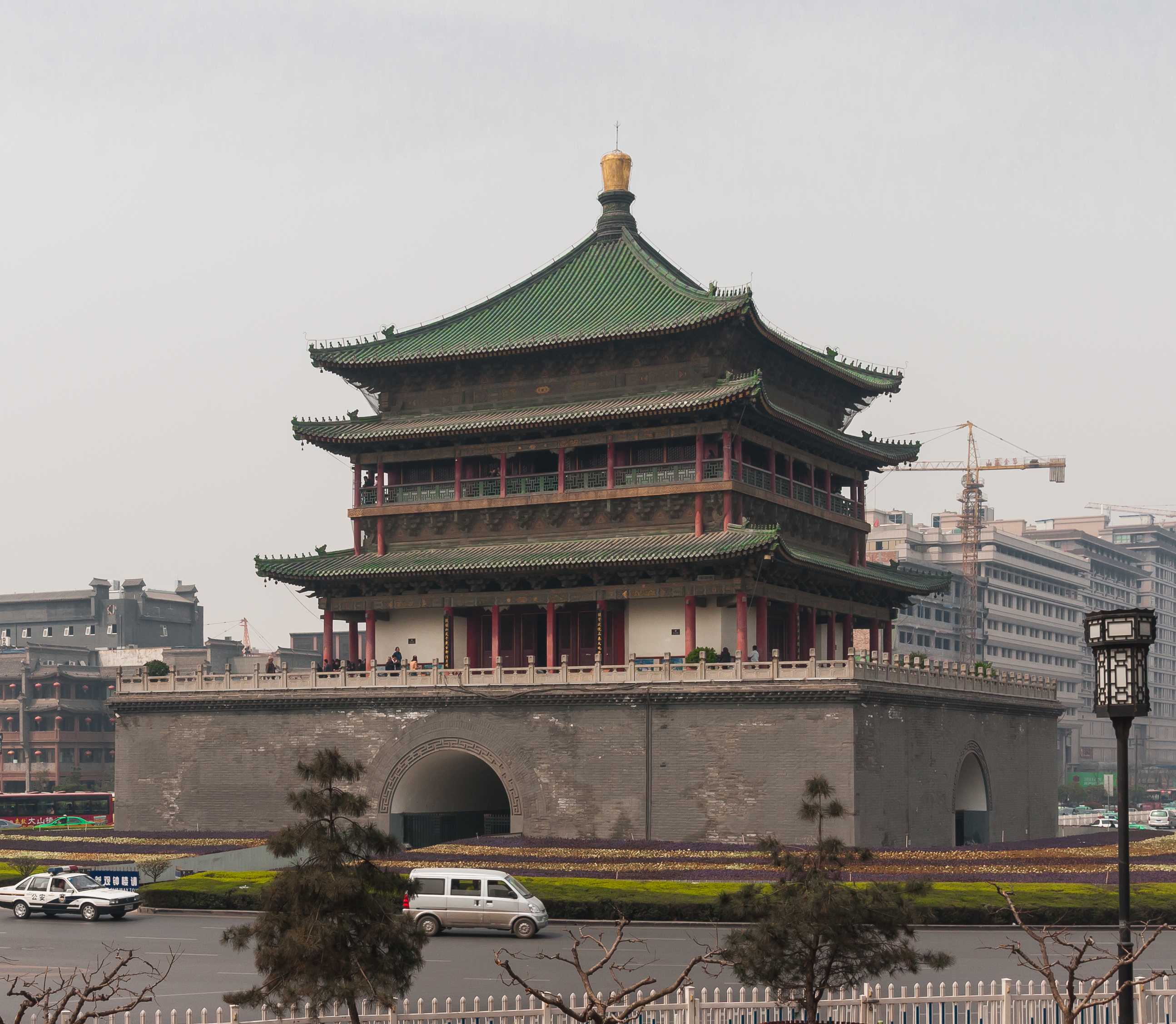 Xian, Shaanxi, China: The bell tower, the center of the old city